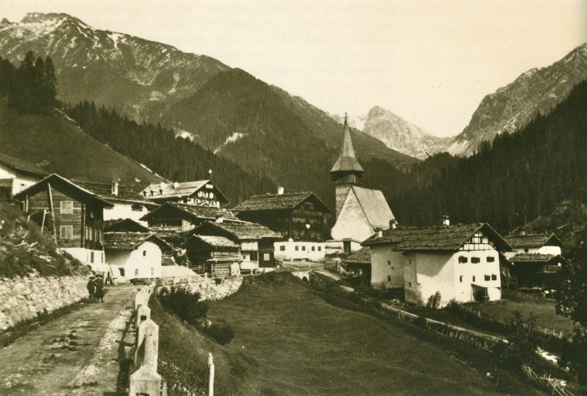 Langwies/Switzerland at 1890